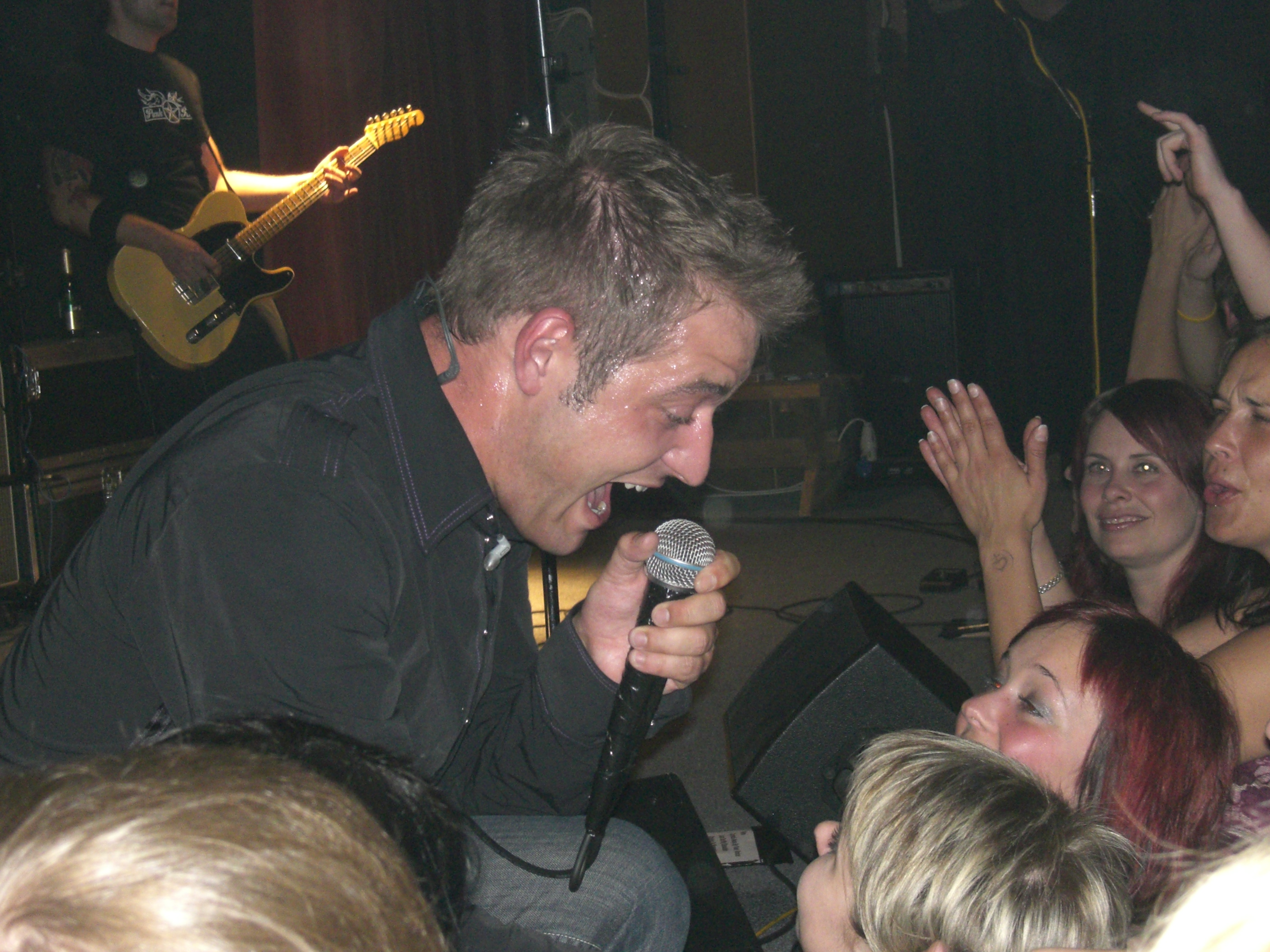 Czech music band Clou - Divadlo pod Čarou, Písek